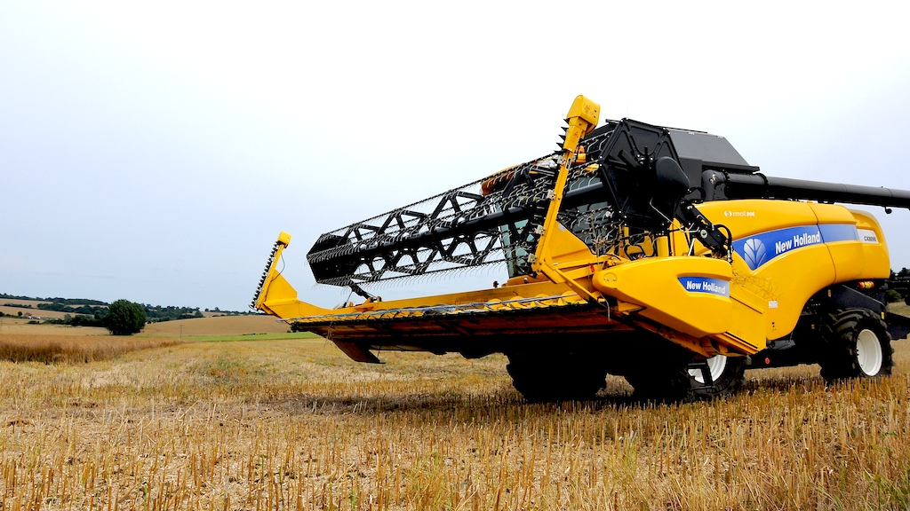 New Holland CX8090 combine harvester working in Glemsford, Suffolk, UK; rapeseed header with upright rape cutterbars on both sides